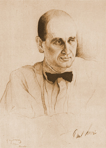 Paul Levi, German Communist leader